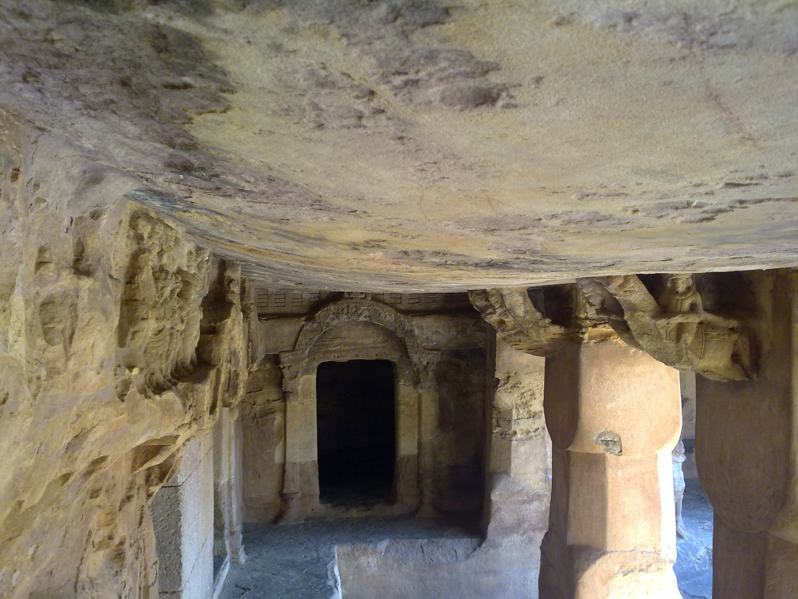 This photo depicting KHANDAGIRI AND UDAYGIRI CAVES (c. first century BC) Location: Odisha. India